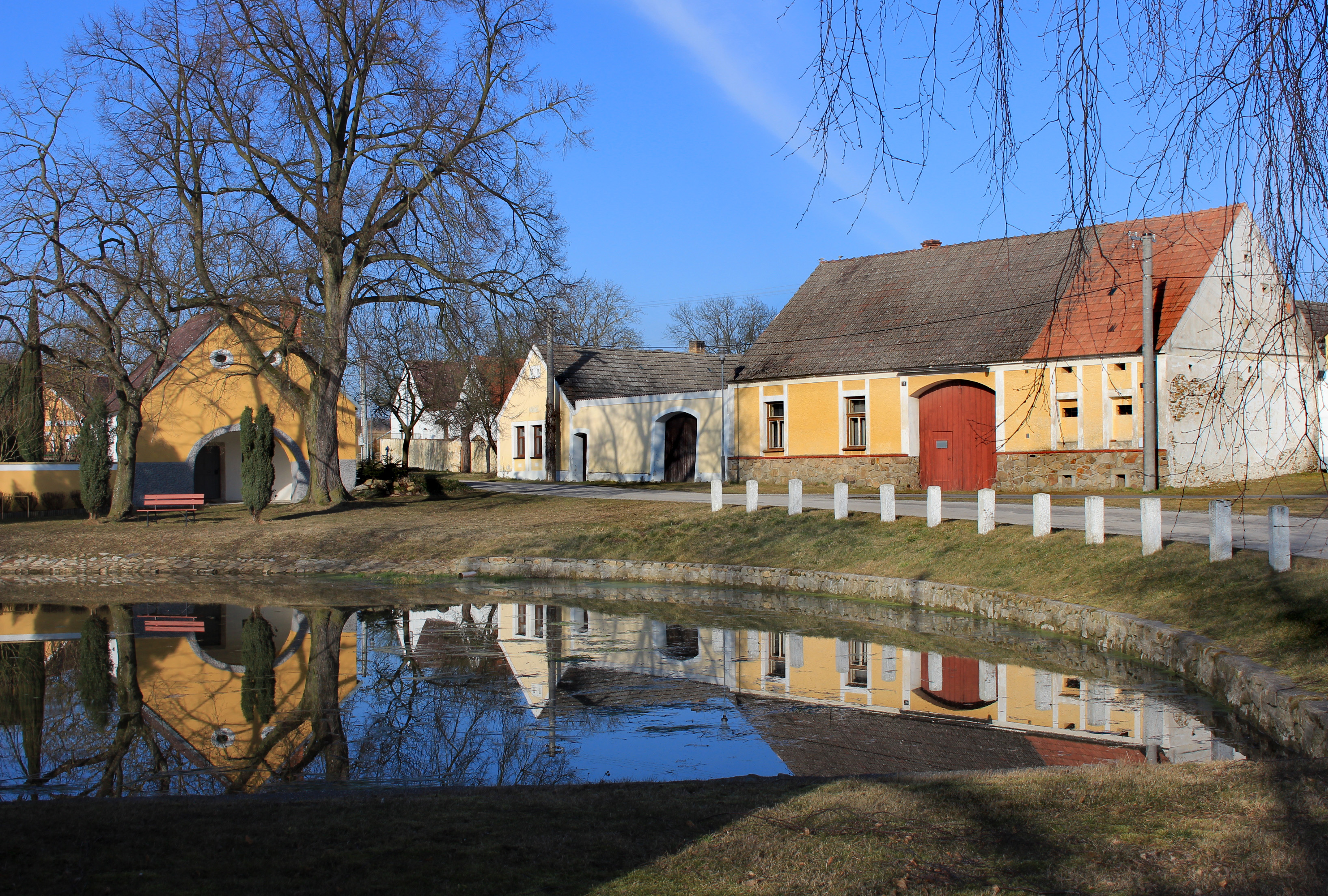 Common in Újezdec village, Czech Republic.